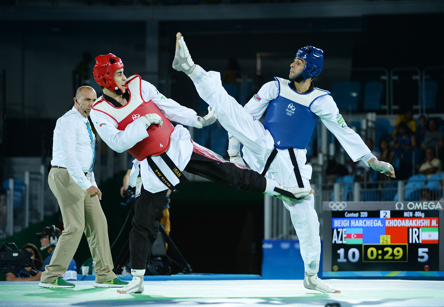 Photograph of the 2016 Summer Olympics, Beigi vs Khodabakhshi by Ilgar Jafarov